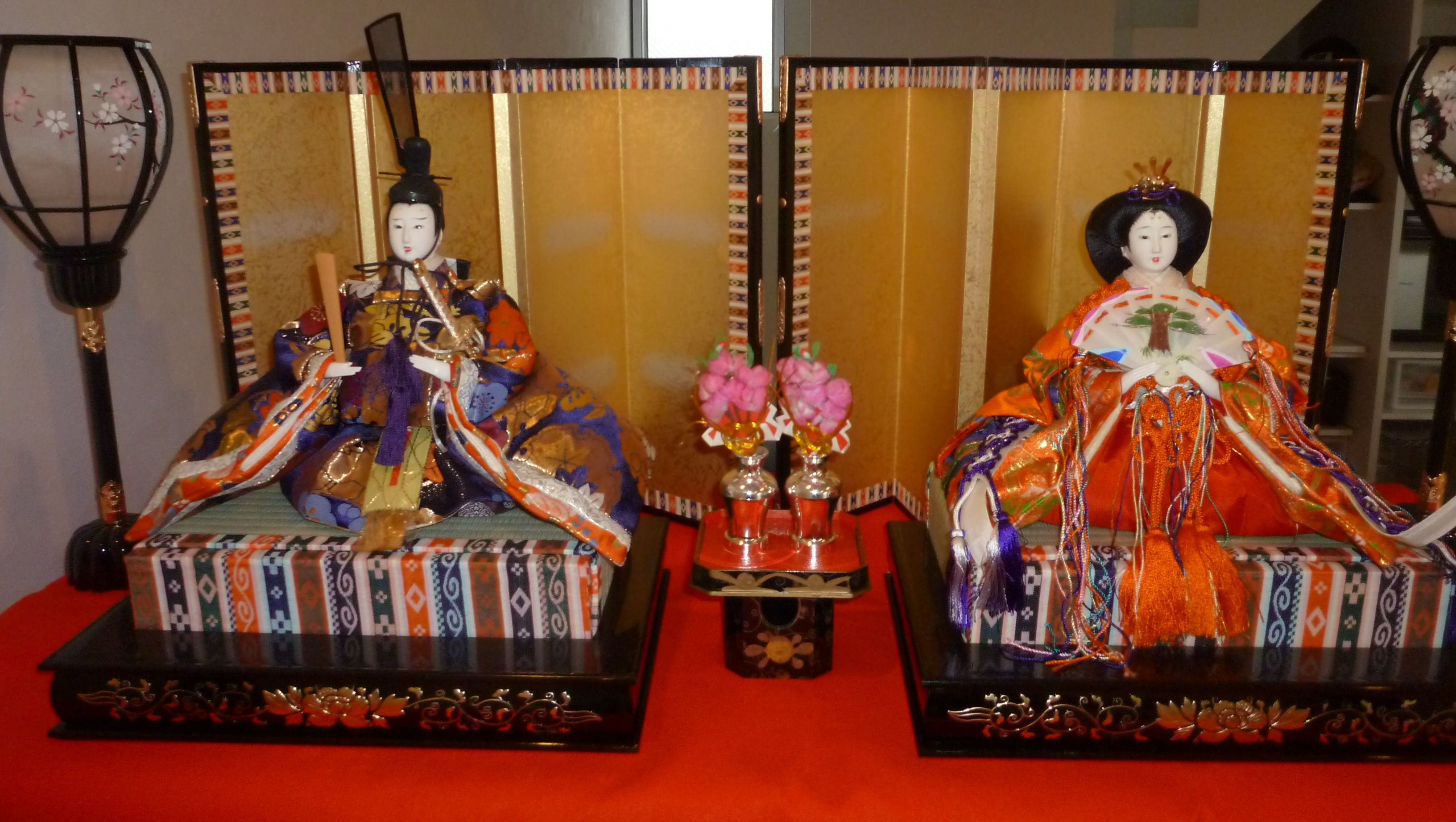 The top platform of a hina doll (雛人形) set, featuring the Emperor (御内裏様) and Empress (御雛様). The optional lampstands are also partially visible.